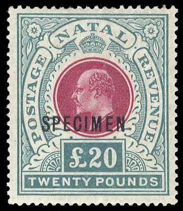 1902 Natal £20 green and carmine postage stamp with Edward VII head, overprinted Specimen in black.